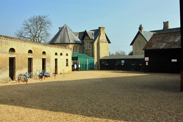 Home Farm, Wimpole Hall